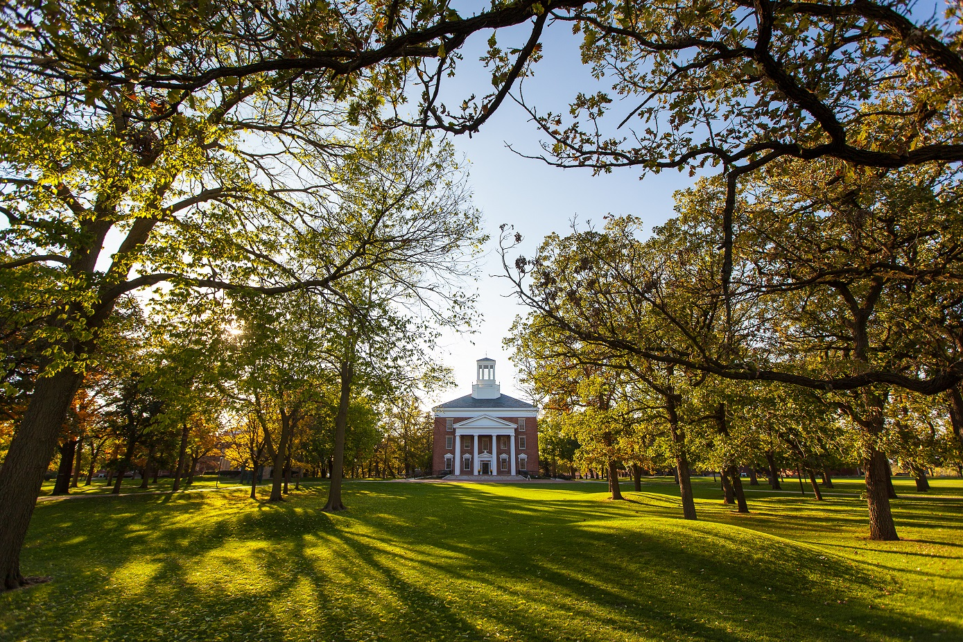 A photo of the sun shining over Middle College on the Beloit College campus.